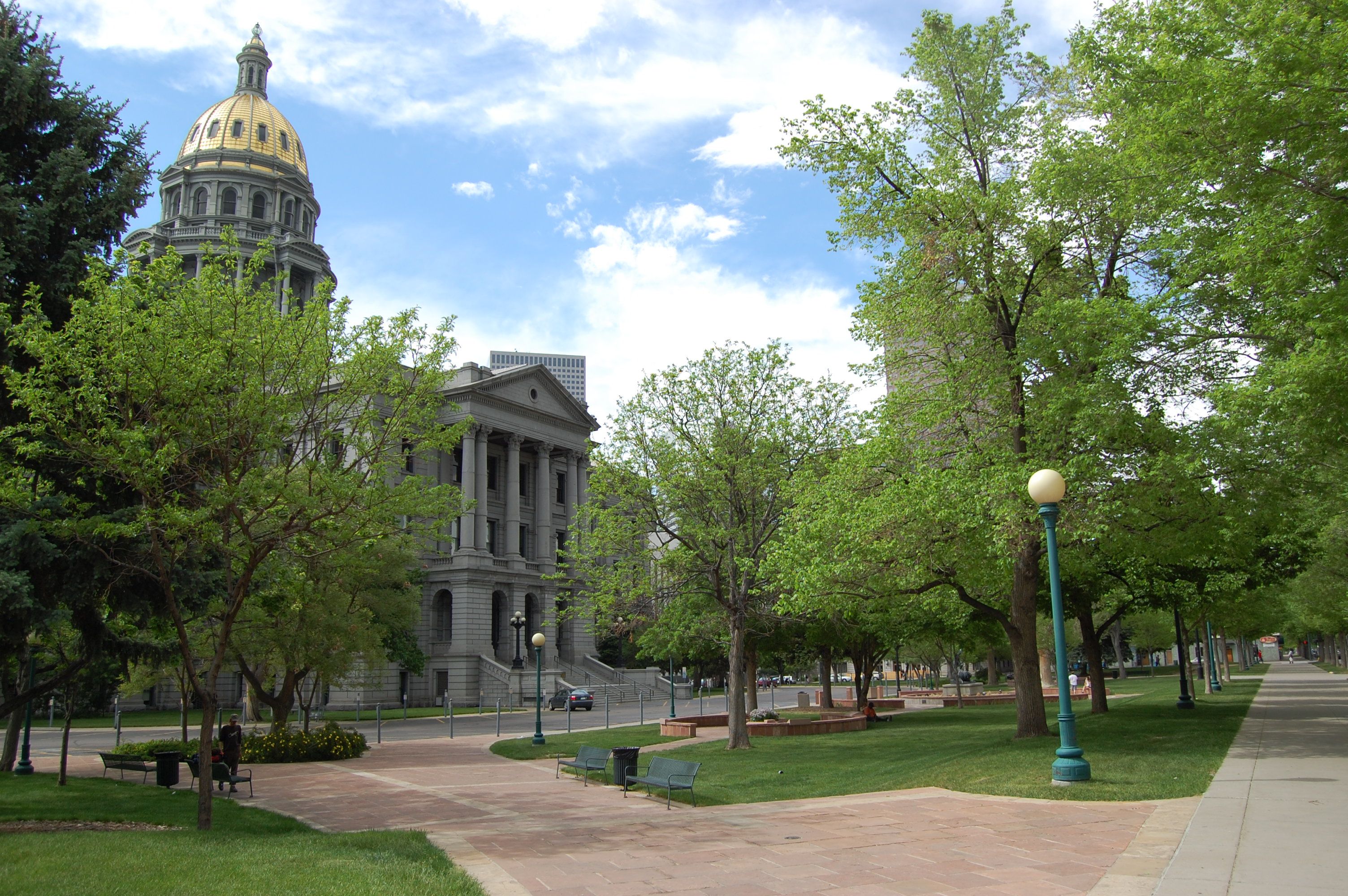 my own shot; release under gfdl